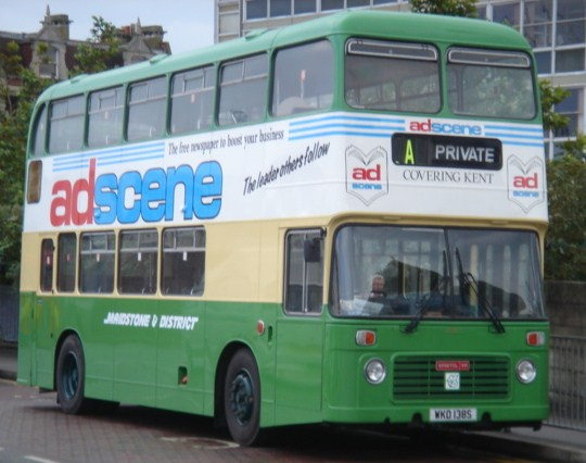 Bristol VRT double-decker bus WKO 138S in Maidstone & District Motor Services livery. Photographed at Hastings railway station.